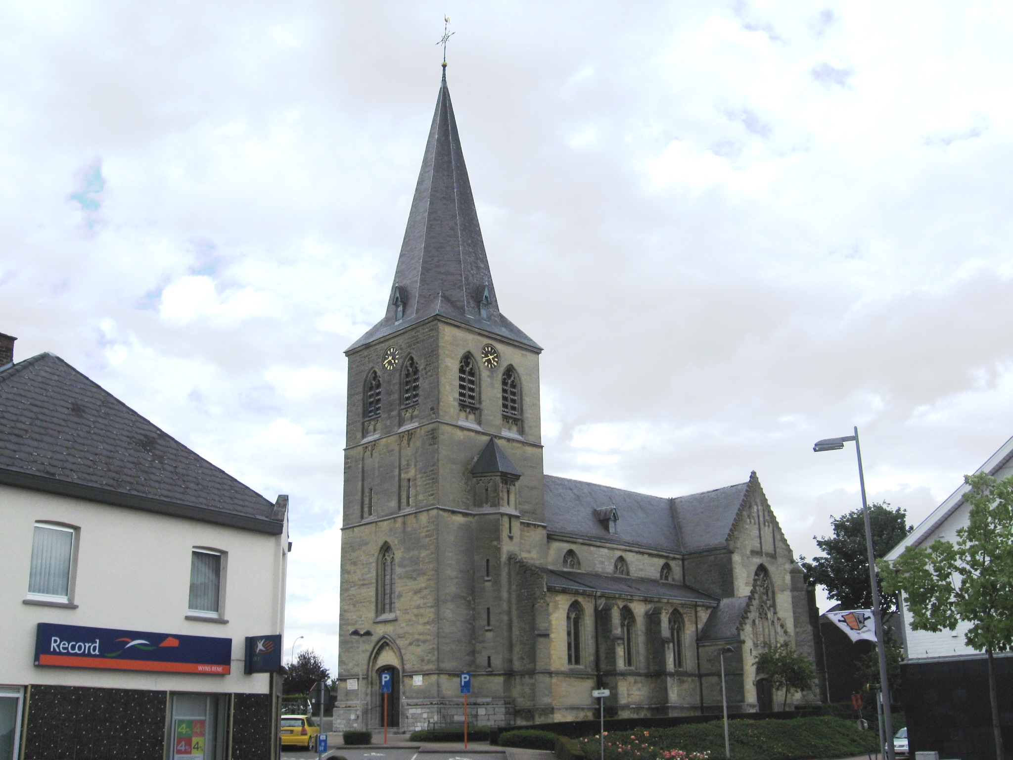 Church of Saint Gertrude in Gruitrode, Meeuwen-Gruitrode, Limburg, Belgium